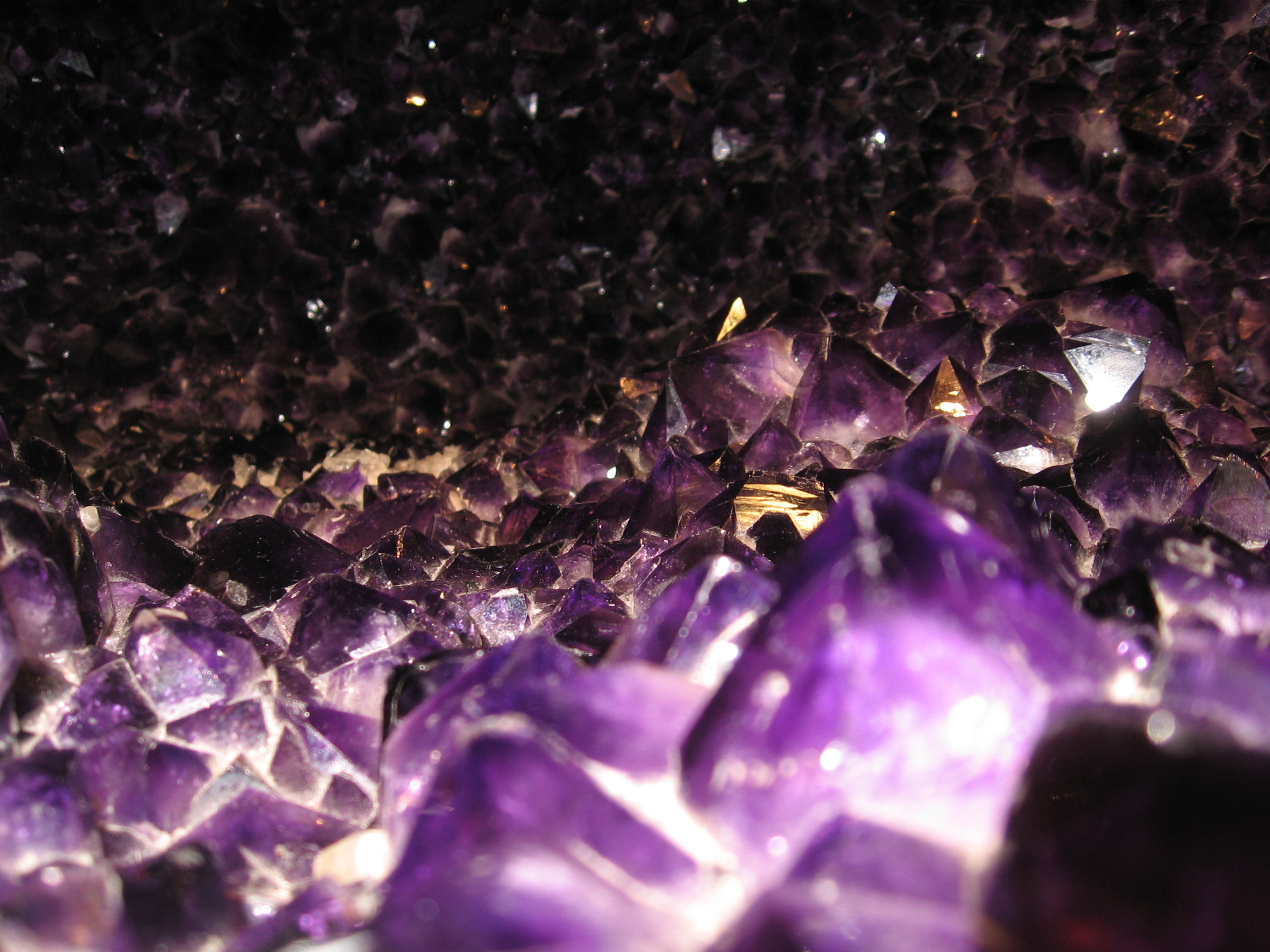 Insides of a Amethyst Geode